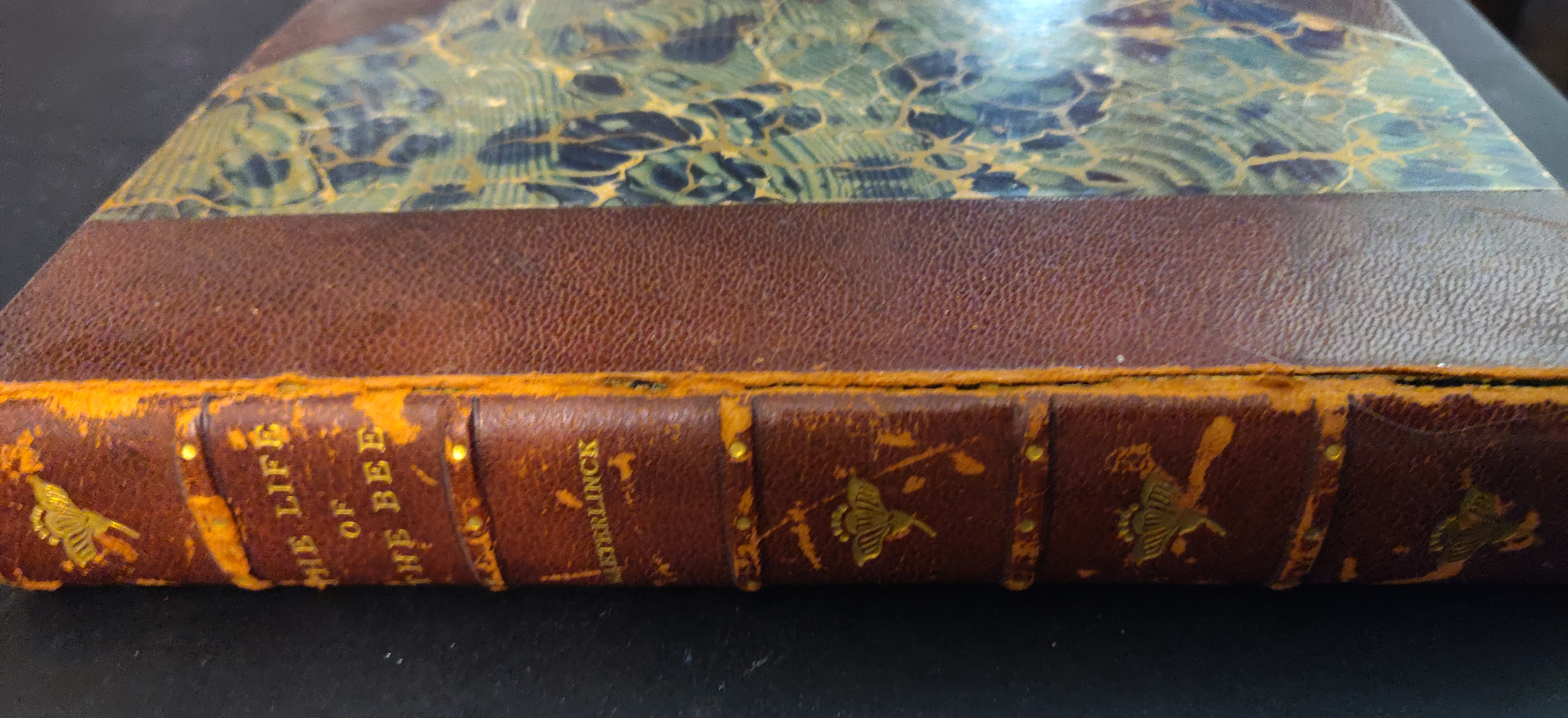 A marbled 1902 Dod, Mead & Co. edition of The Life of the Bee by Maurice Maëterlinck, a gift to my paternal Grandpa Alex whose initials are written in pencil on the flyleaf.